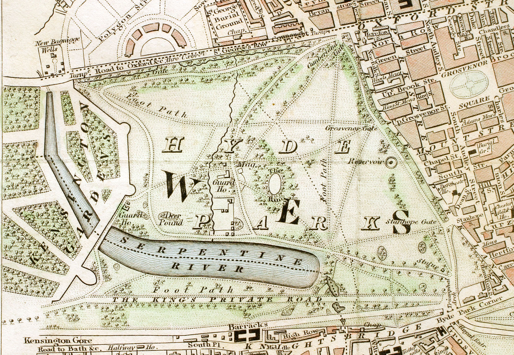 Hyde Park section of "Improved map of London for 1833, from Actual Survey. Engraved by W. Schmollinger, 27 Goswell Terrace", photographed for Wikipedia by User:Pointillist. All rights of the photographer are hereby released.